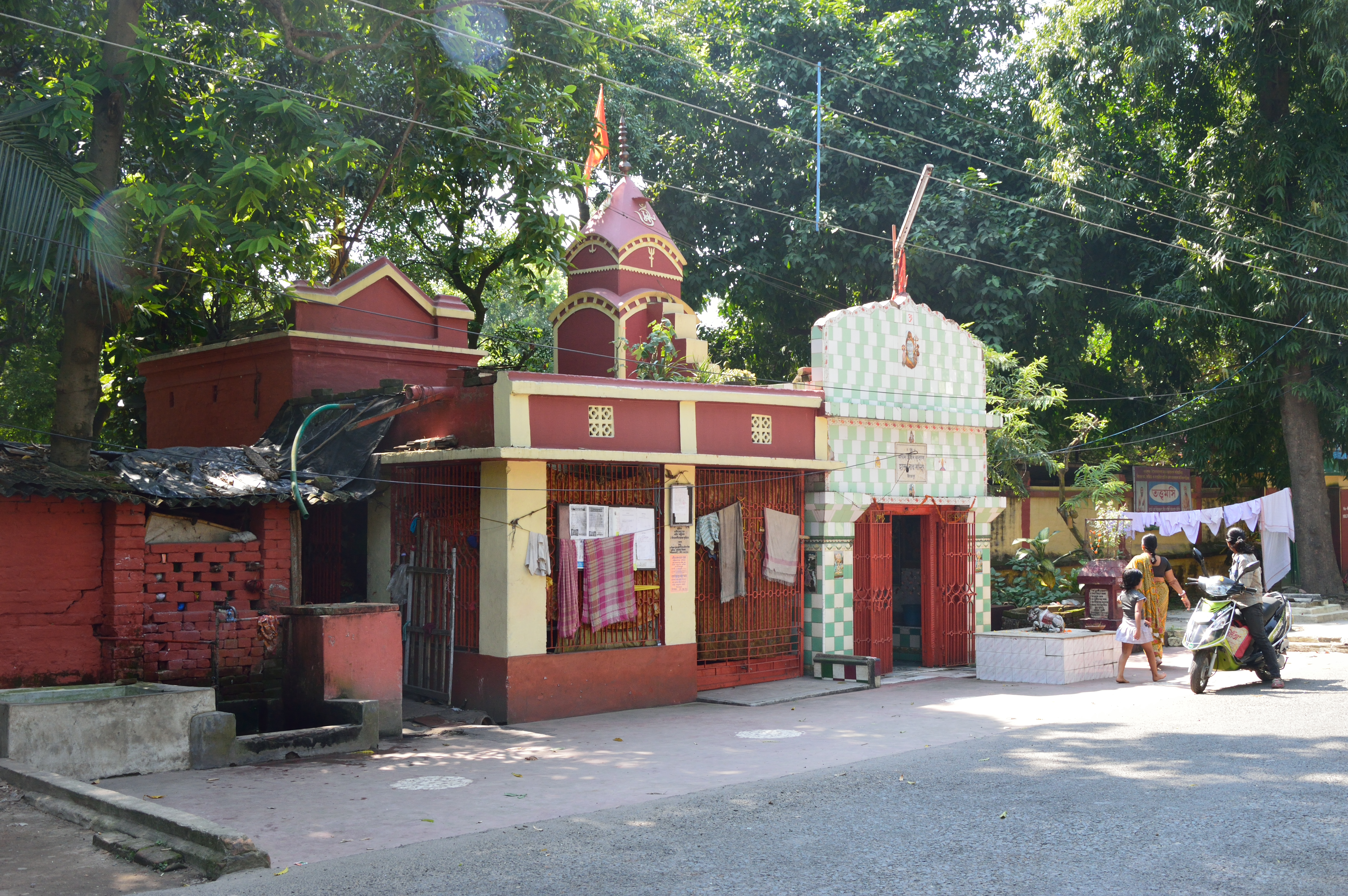 Photographed in greater Kolkata, India.